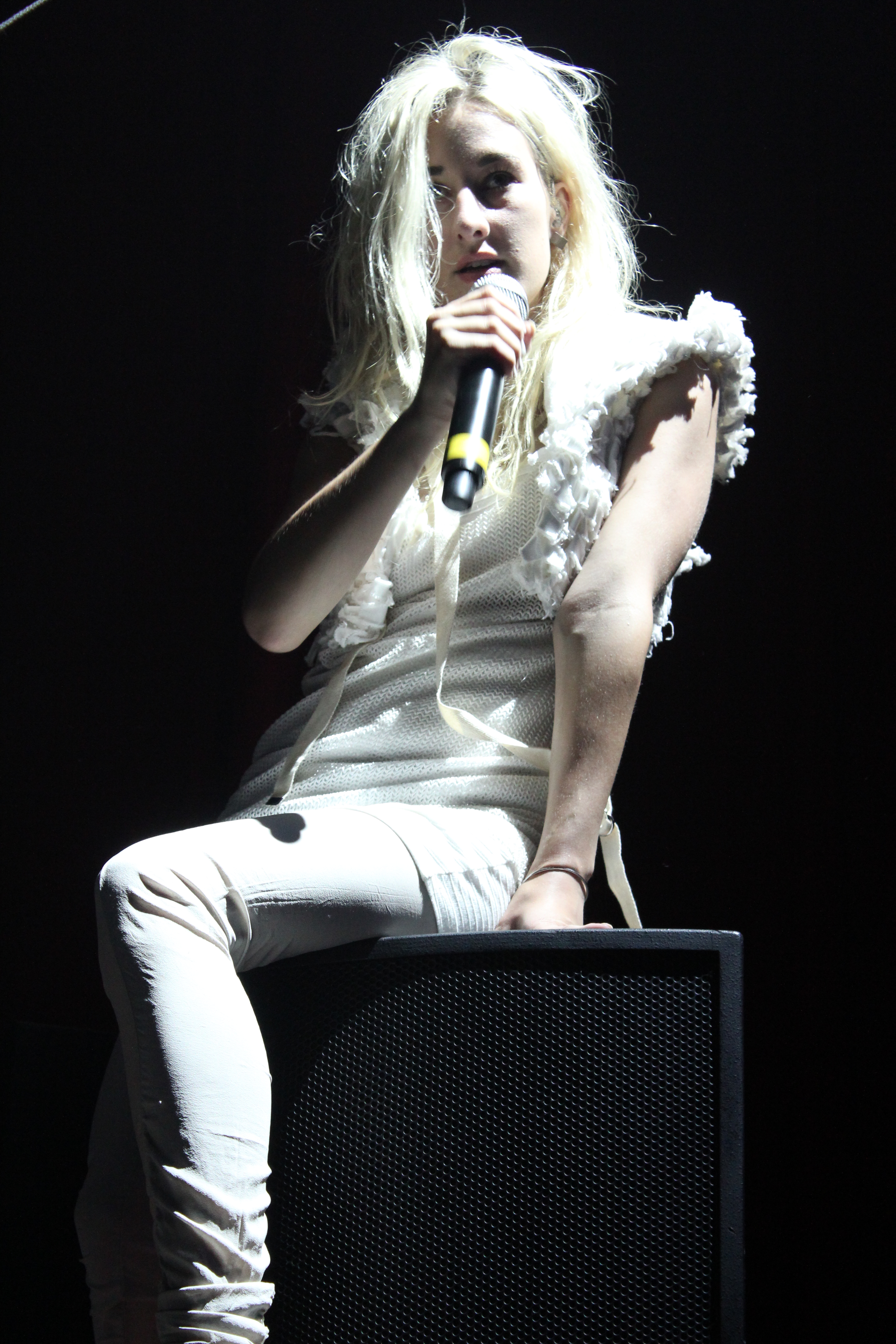 Zola Jesus performing at the Melt! Festival in Ferropolis, Gräfenhainichen, Germany, 15 July 2012.